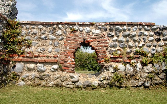 Roman Fort at Richborough, Kent The cellar of the Mansio.